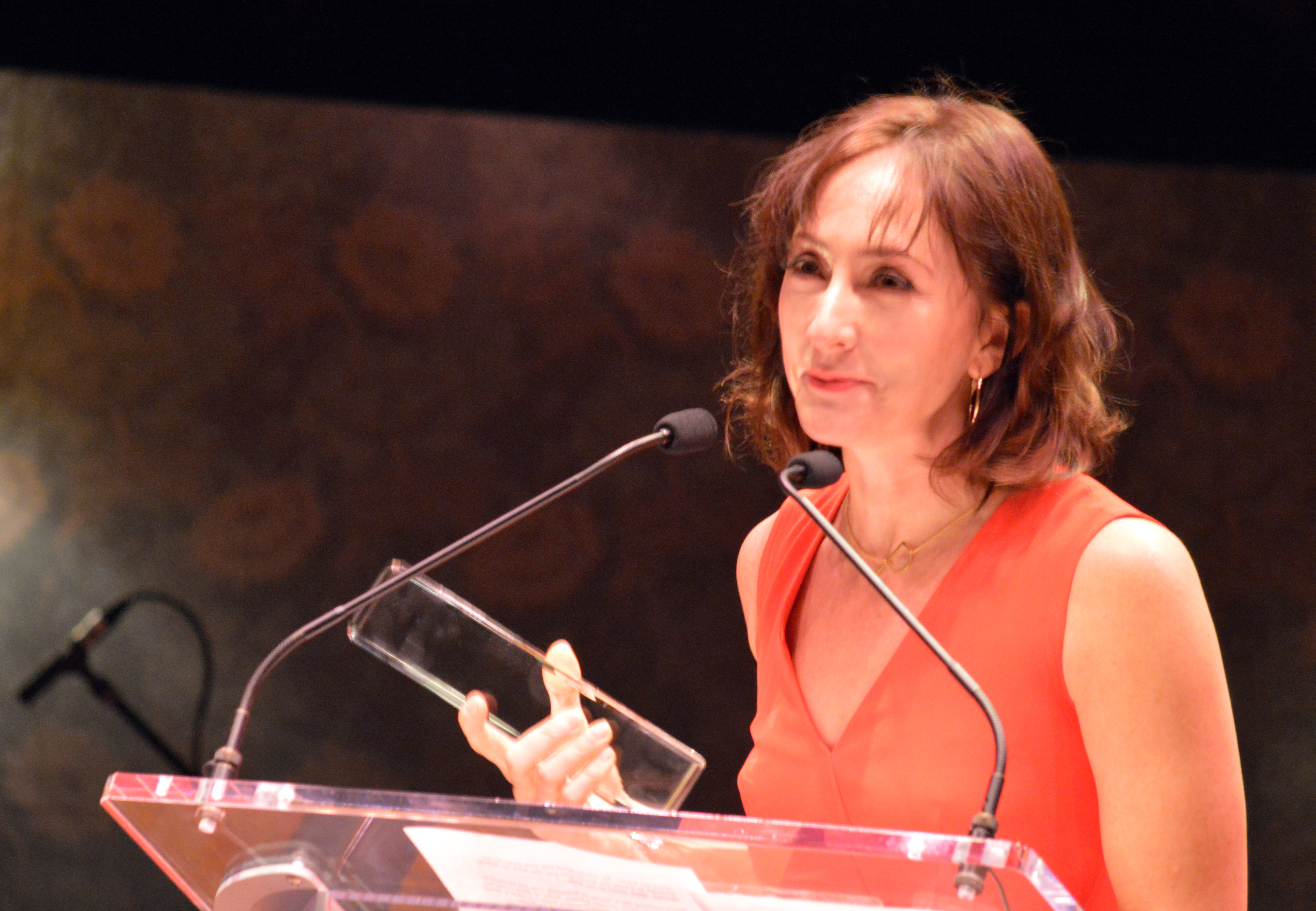 Carmen Cusack accepting her 2016 Theatre World Award for her Broadway debut in Bright Star.